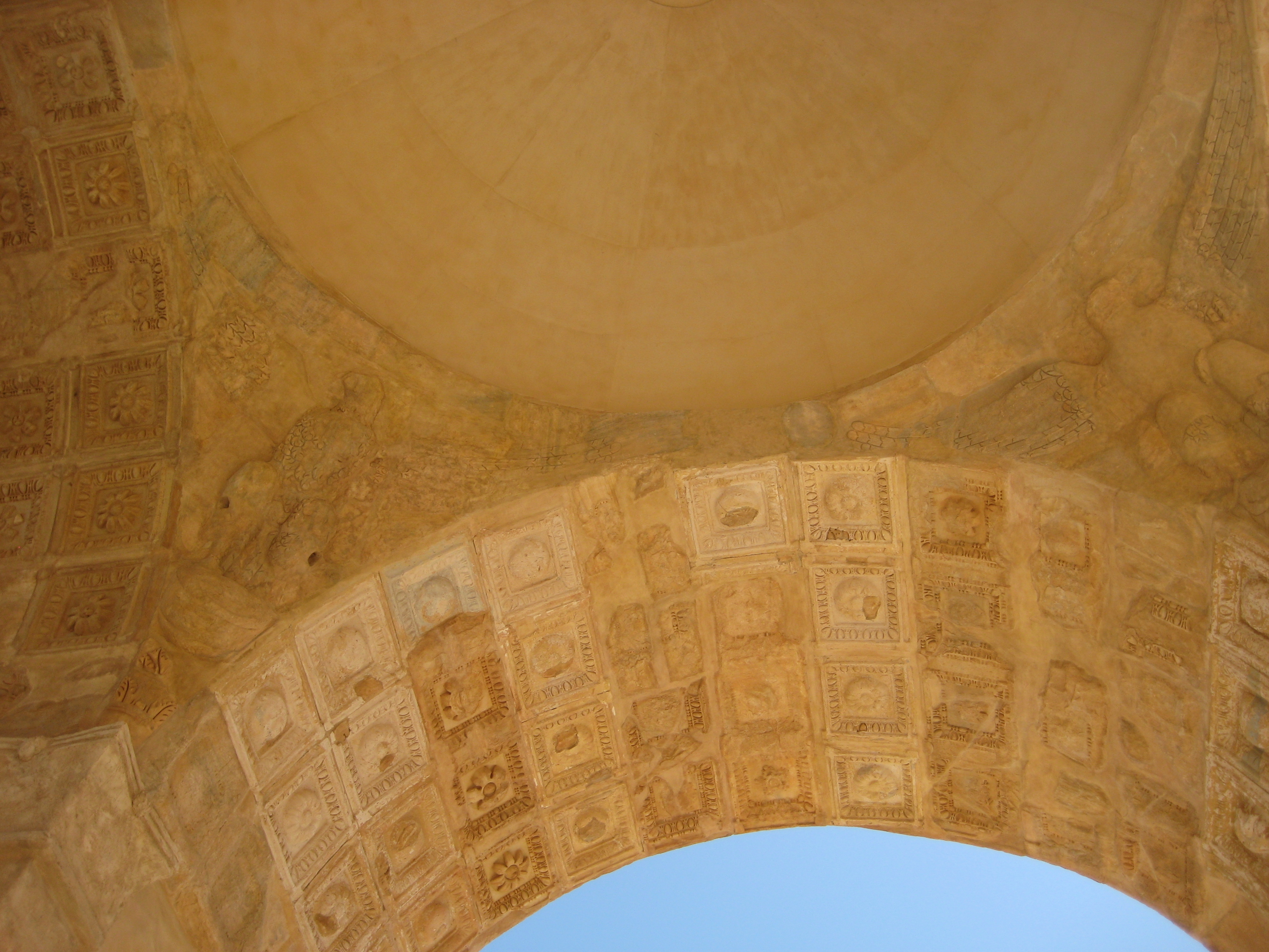 Bas-reliefs two eagles on both sides in inside of arch of Roman Emperor Lucius Septimius Severus (AD 146-211) in Leptis Magna (Libya)